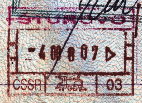 Old Czechoslovak 1988 passport exit stamp from Sturovo, now in Slovakia